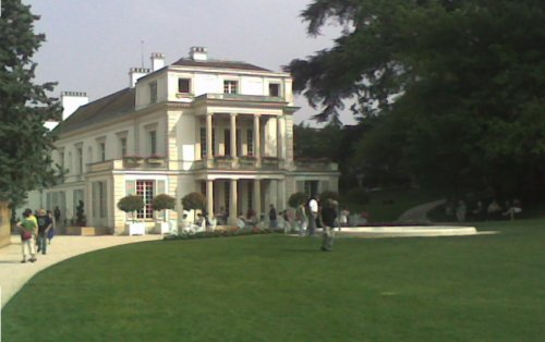 Domain of Caillebotte family in Yerrs, Essonne, France.